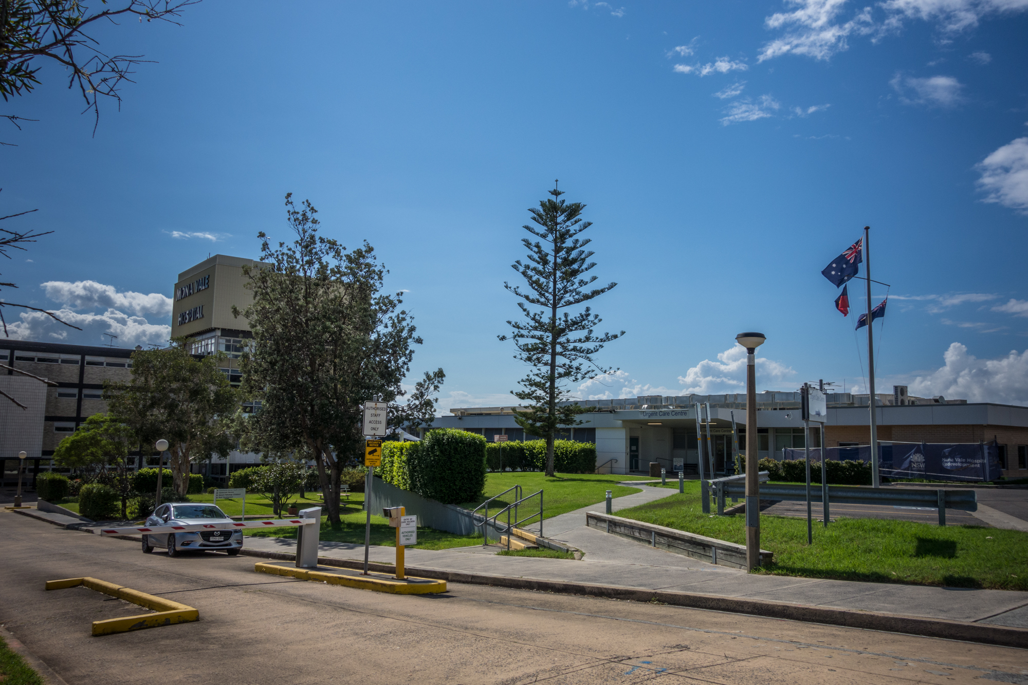 Mona Vale Urgent Care Centre, Mona Vale, NSW, Australia. Previously the Emergency Department of Mona Vale Hospital.